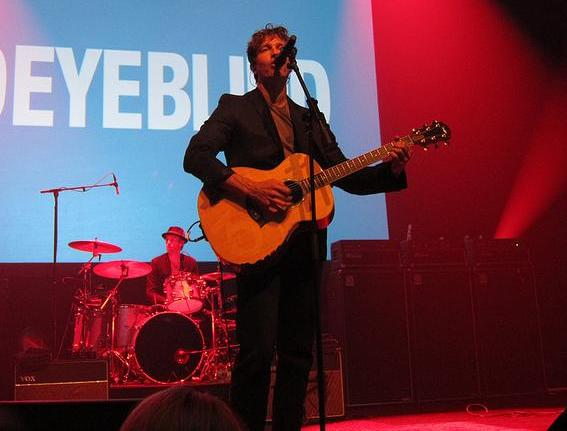 Third Eye Blind Presented by Aetna at Austin City Limits Live at The Moody Theater